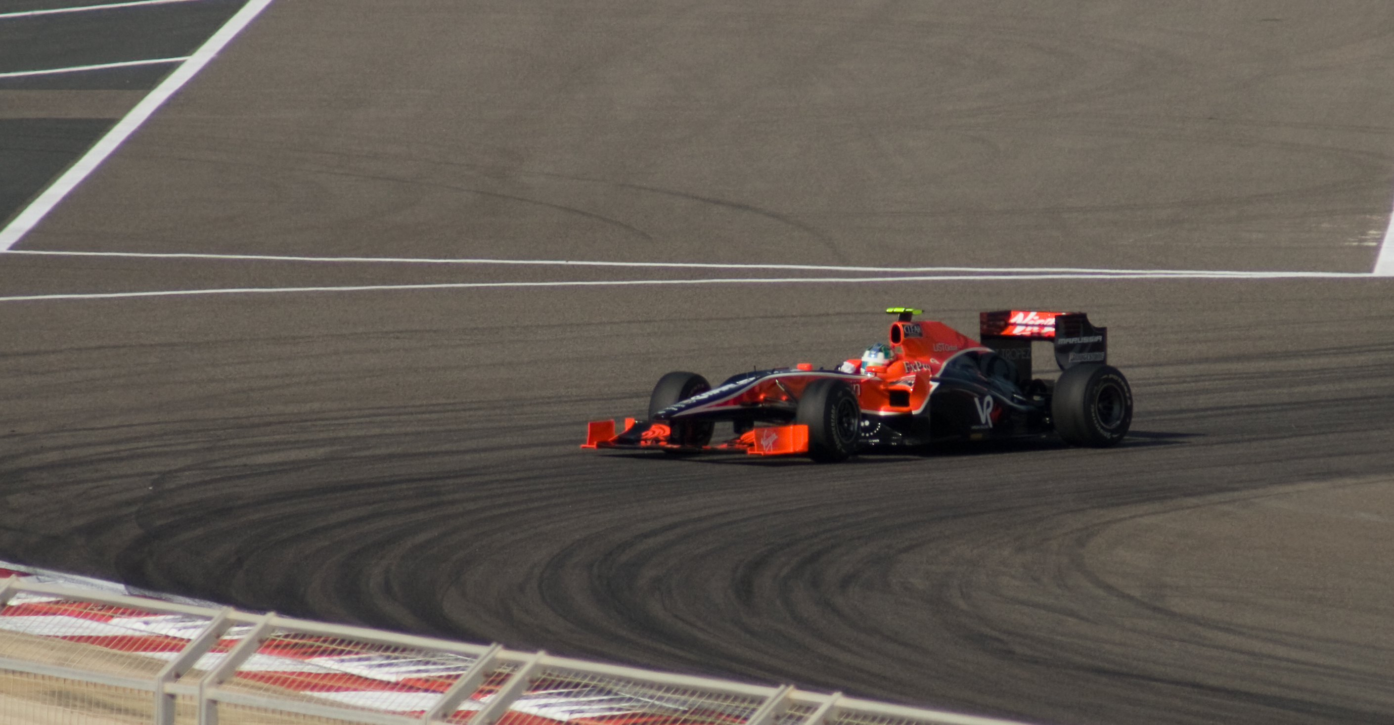 Lucas di Grassi driving for Virgin Racing at the 2010 Bahrain Grand Prix.